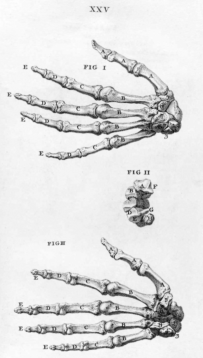 William Cheselden: Osteographia, or The anatomy of the bones. Uploader=Kuebi 17:45, 2 April 2007 (UTC)